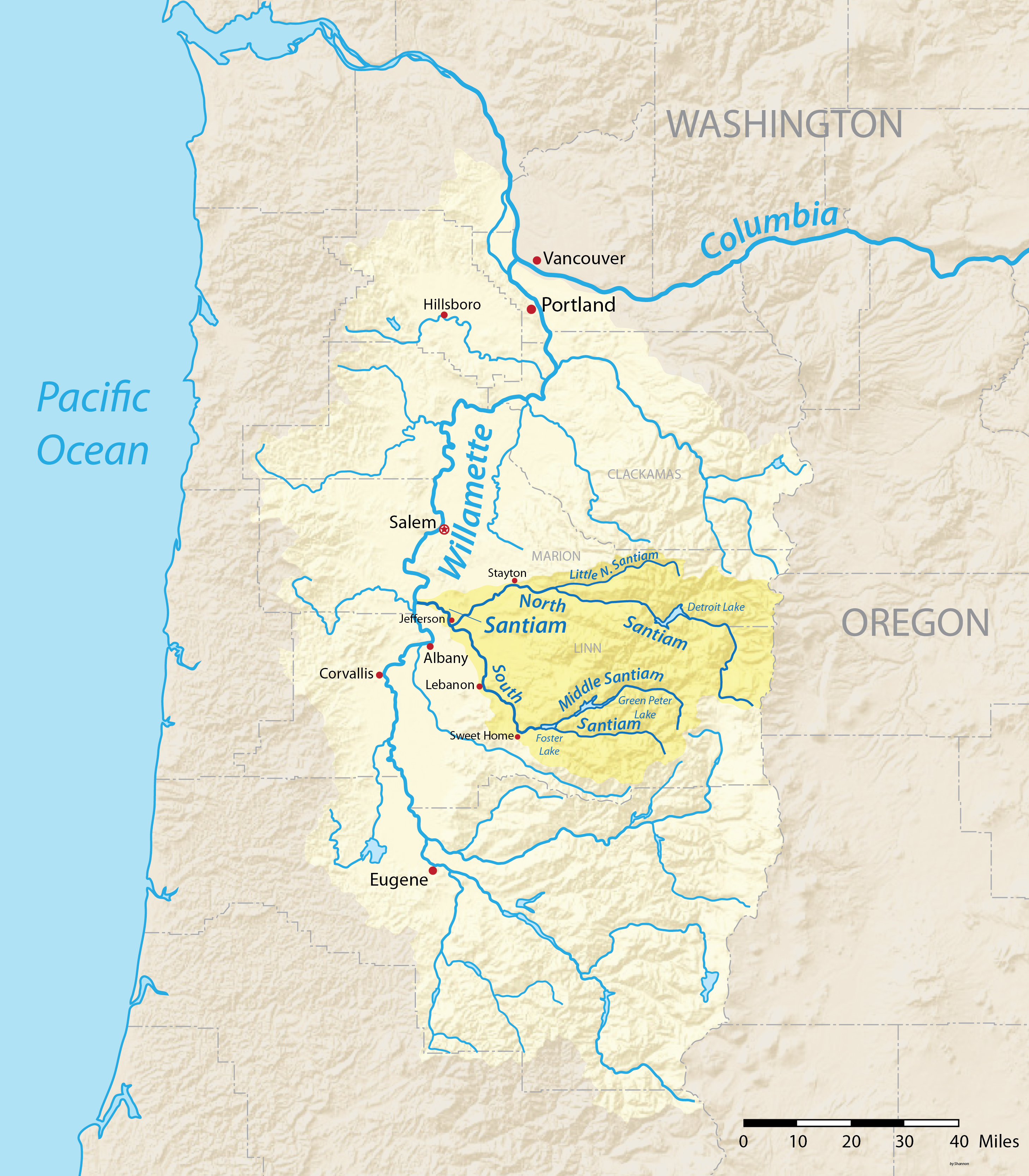 Map of the Willamette River basin in Oregon, USA with the Santiam River tributary highlighted. Made using USGS National Map data.